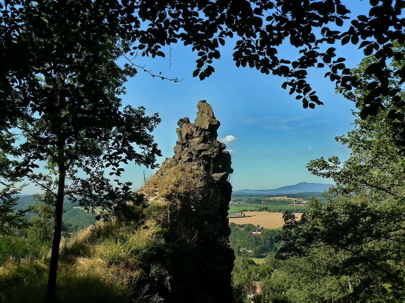 Káčov, Ještěd in the distance